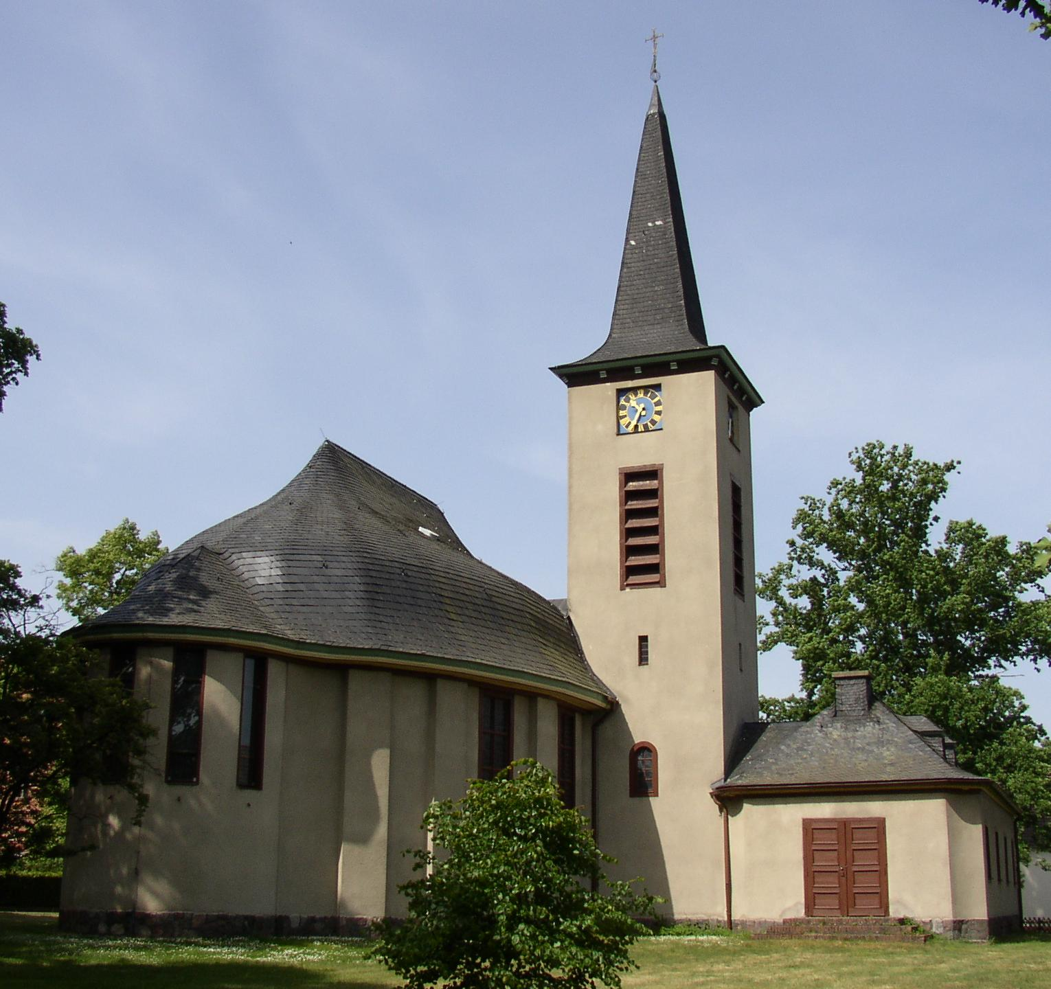 Church in Neu Lübbenau in Brandenburg, Germany